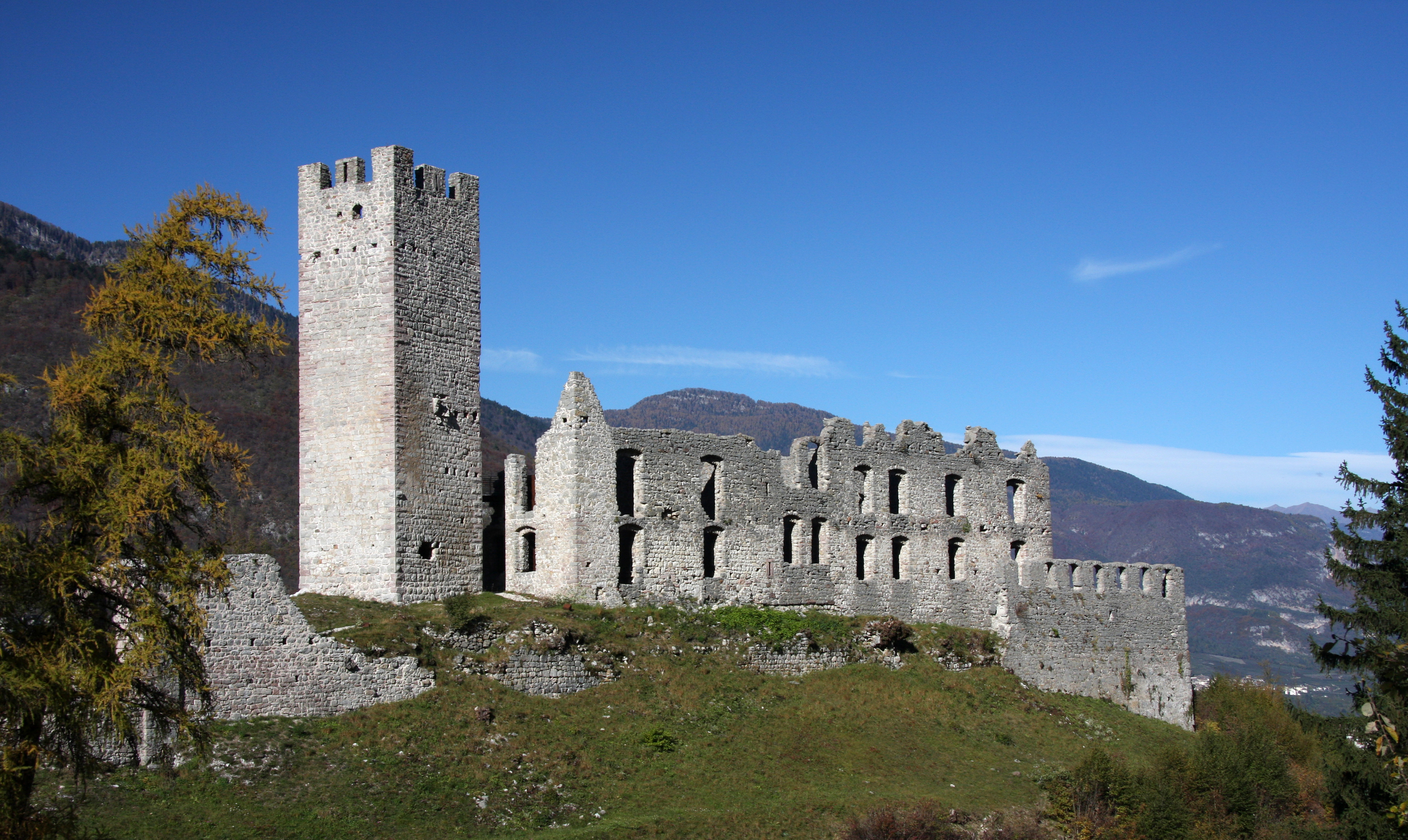 Belfort castle (Castel Belfort), Spormaggiore (TN), Italy: exterior